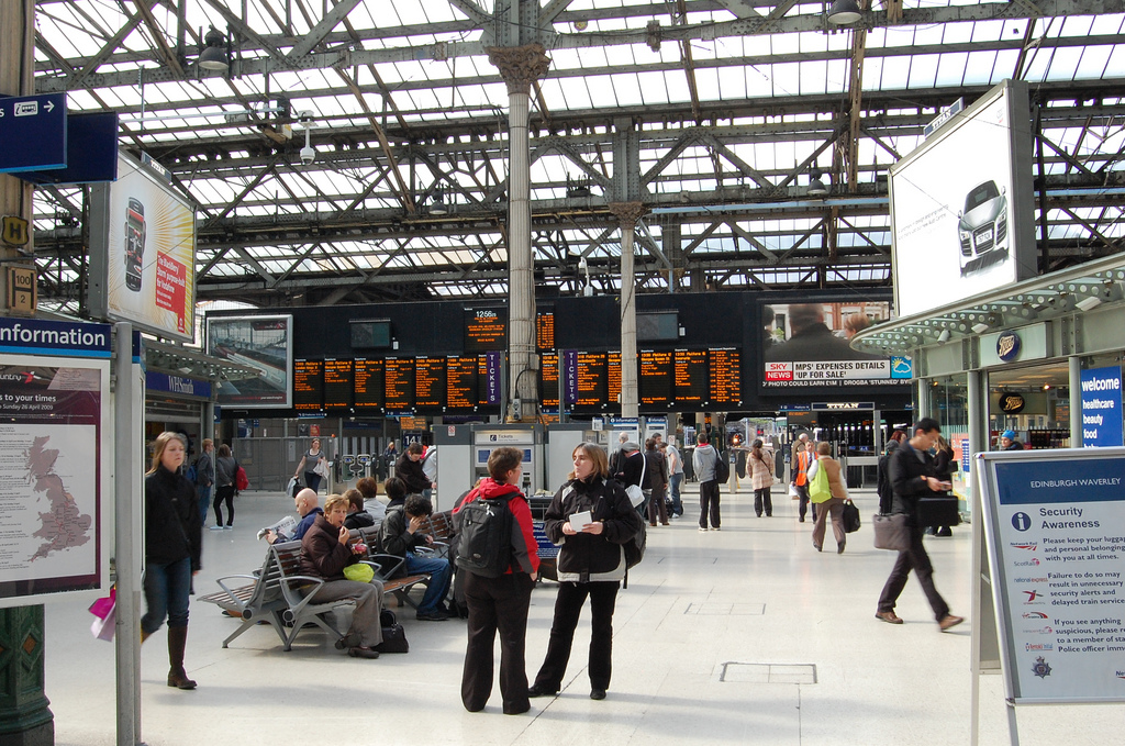 ANother image of Waverley Station